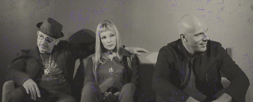 Picture was taken by Paul de Luna, 2014 in NYC